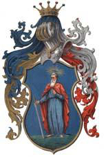 Coat of arms of county of Kingdom of Hungary